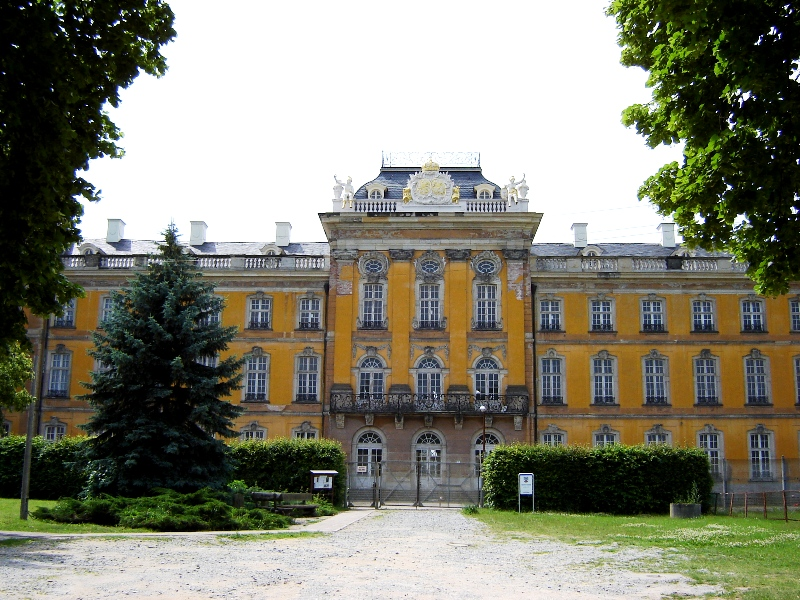 Castle Schloss Dornburg, Gommern (Saxony-Anhalt)